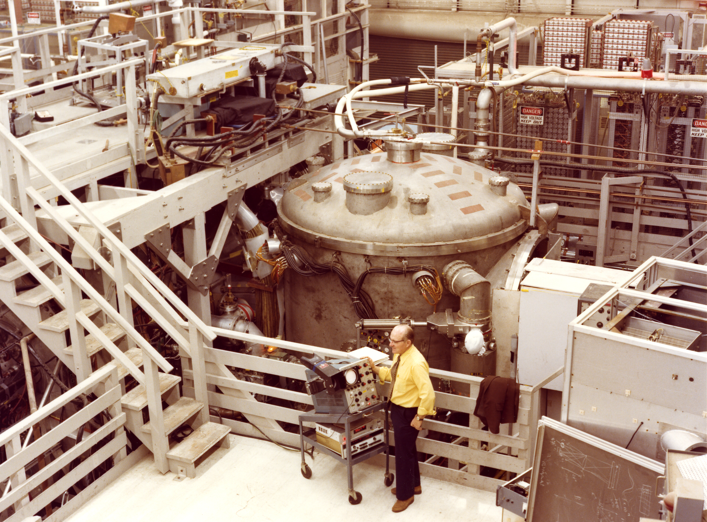 In 1978, Lawrence Livermore National Laboratory was following the 2XII experiments of Fred Coensgen (pictured in photo) and his team. They were injecting into the 2XII device a plasma that was compressed in a magnetic bottle by intensifying the magnetic field. High densities were achieved, but plasma confinement was poor at high temperatures. Changes were made to address the issue. The experiment later became 2XIIB.